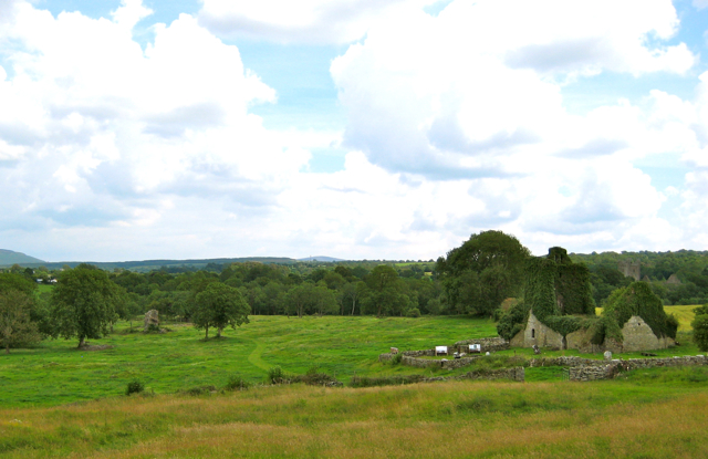 View of the medieval footprint of Newtown Jerpoint, Jerpoint Park, Co. Kilkenny